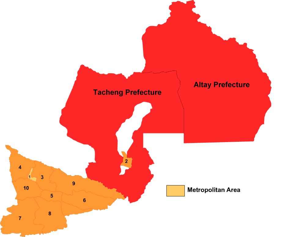 Map of Illi prefecture in Xinjiang Province